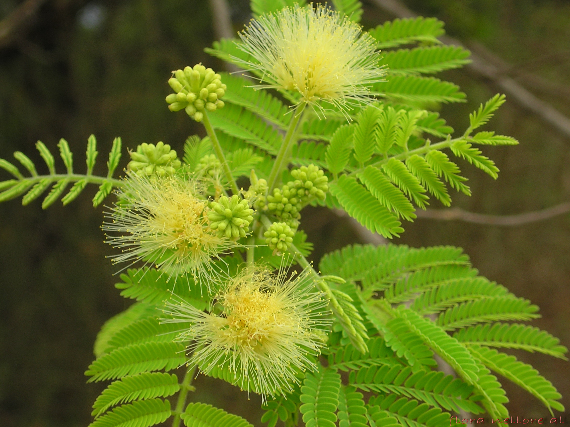 Family: Mimosaceae Distribution: Common in deciduous forests, Found in India, Srilanka and East Africa. Deciduous trees. Leaves 6-12 cm long, pinnae 8-12 pairs, leaflets 10-30pairs, 0.5-1mmx4-5mm linear oblong, rachis pubescent. Flowers 2-3 mm across, creamy yellow in 1.5-2cm across globose heads.Pods 8-20x2-4 cmlong flat compressed. Powdered dry leaves are used to wash the hair. Reference: Flora of presidency of Madras by J.S Gamble, ENVIS, Flora of Nellore district By B.Suryanarayana &A.S Rao